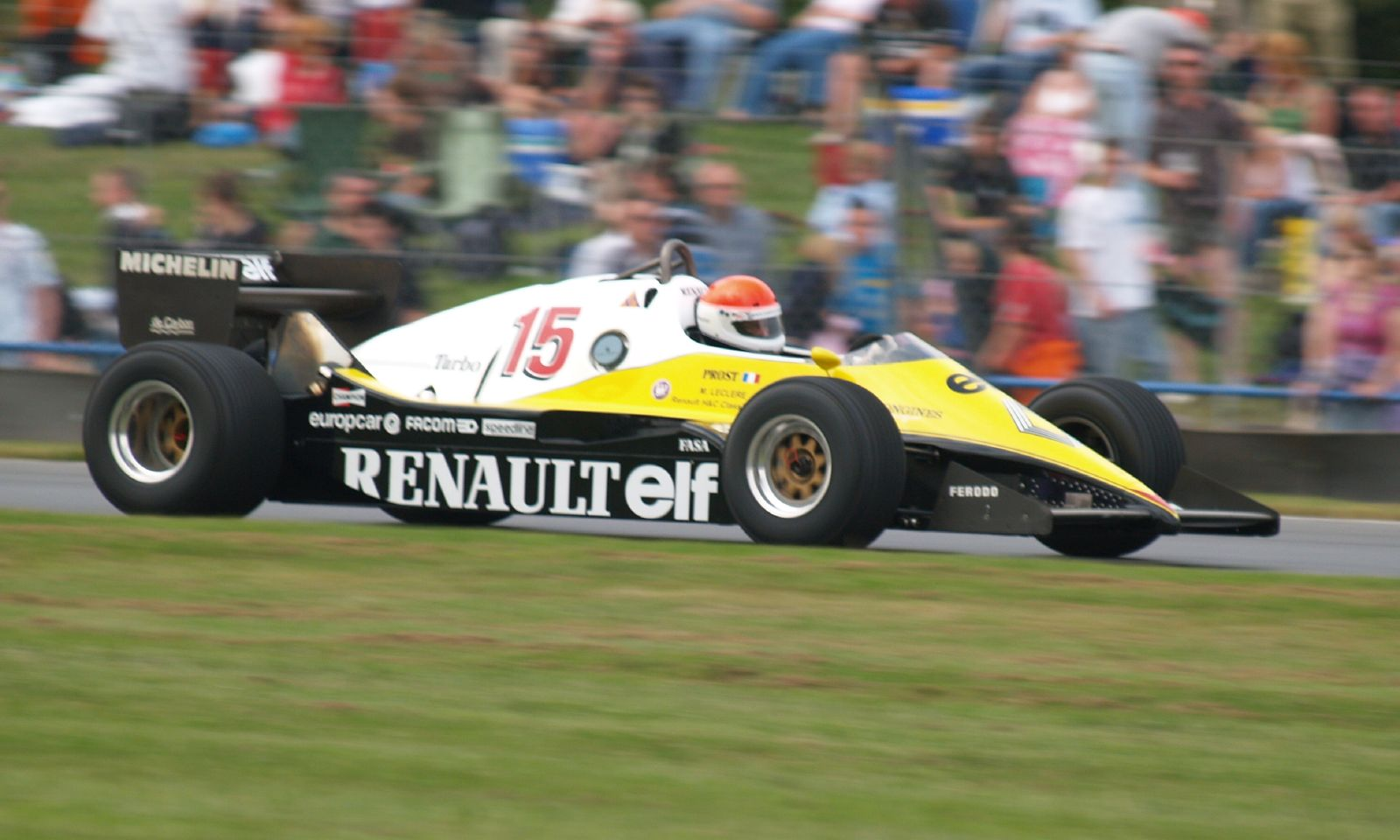 An ex-Alain Prost Renault RE40 Formula One car being demonstrated durng the World Series by Renault event at Donington Park, September 2007.